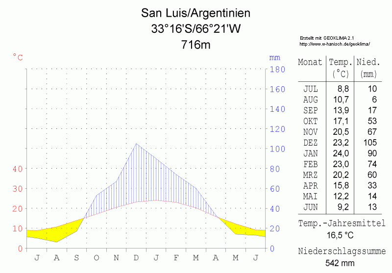 climate chart in the format by Walther and Lieth